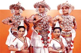 Kandyan dancers with their costumes